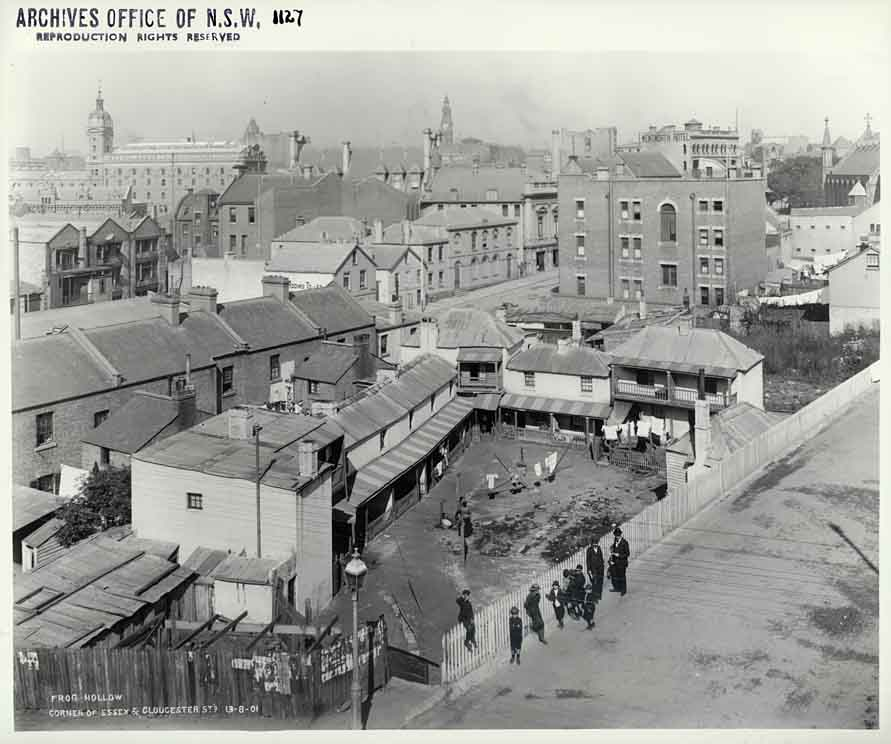 Frog Hollow corner of Essex and Gloucester Streets, The Rocks [Rocks Resumption photographic survey] Dated: 13 August 1901 Digital ID: 4481_a026_000201 Rights: We'd love to hear from you if you use our photos. Many other photos in our collection are available to view and browse on our website using Photo Investigator.